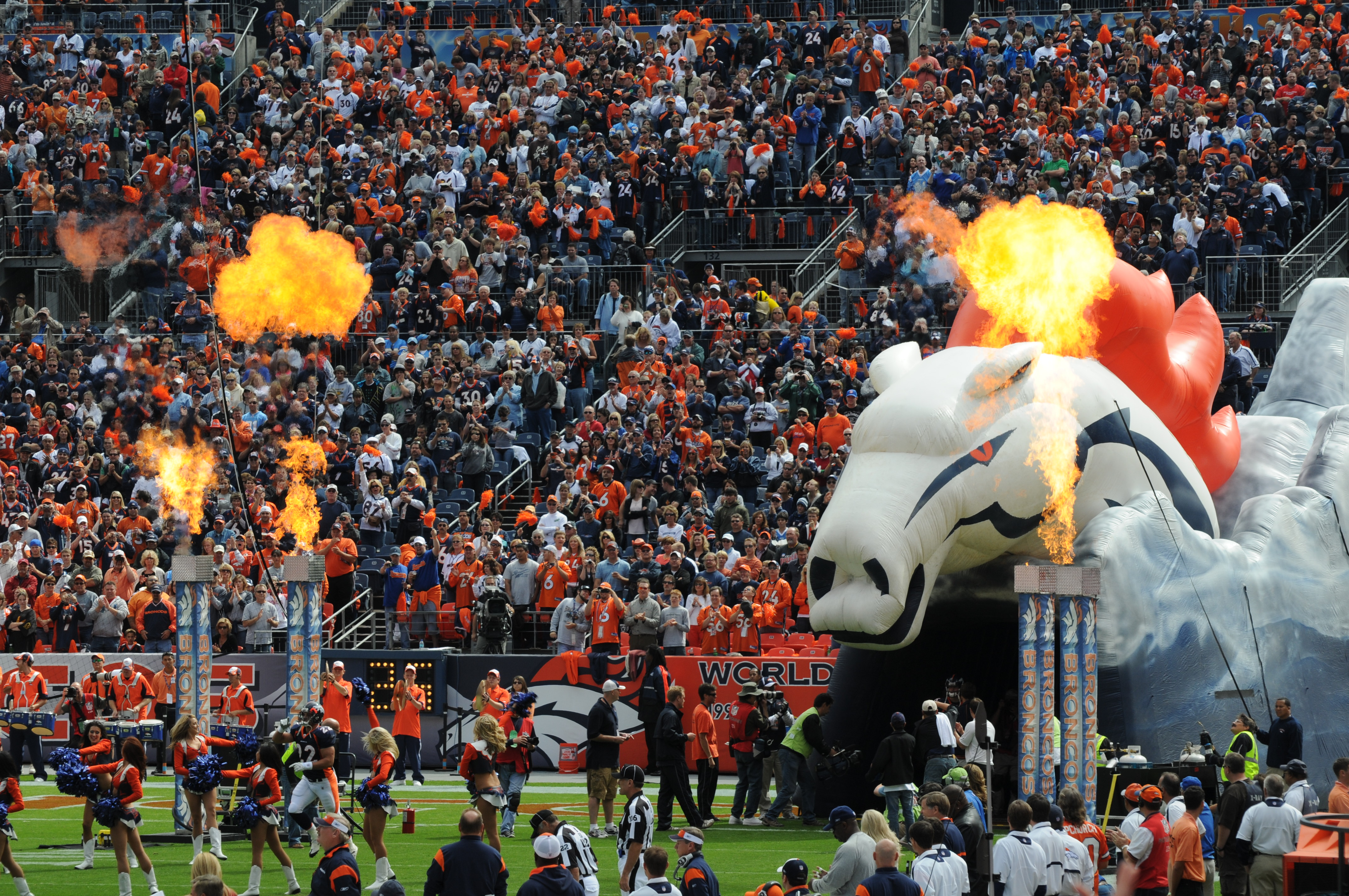 Player entrance tunnel at Sports Authority Field at Mile High (known as Invesco Field at Mile High at the time this was taken).